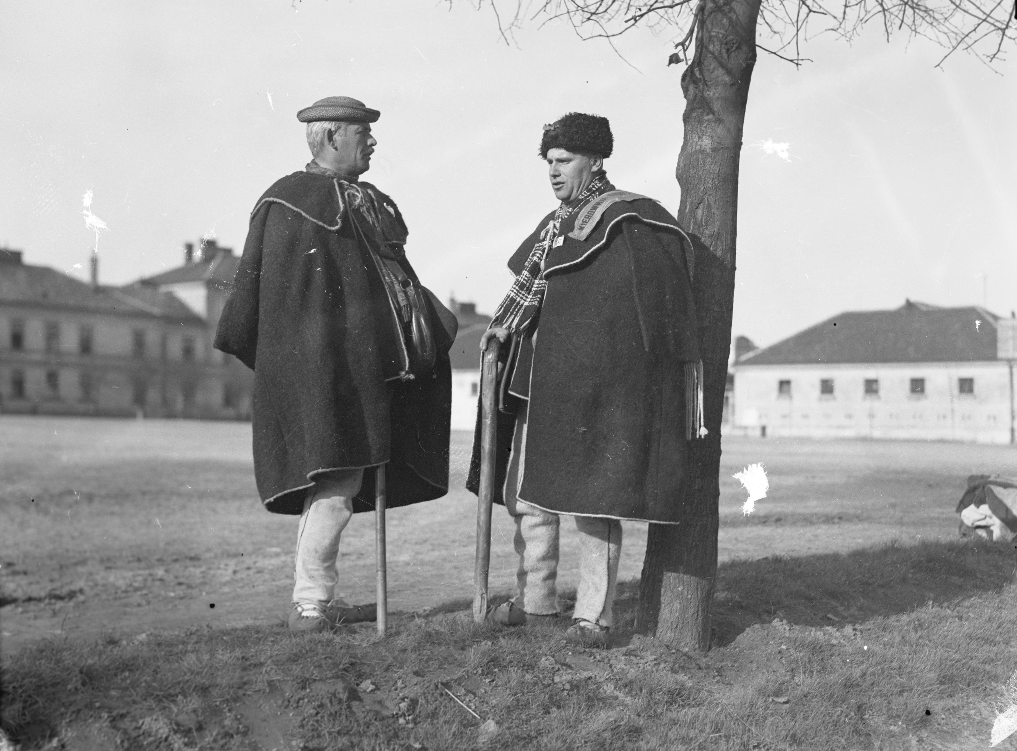 Ukrainian Lemkos (Carpathian highlanders) from south east Poland. Old prewar photo.